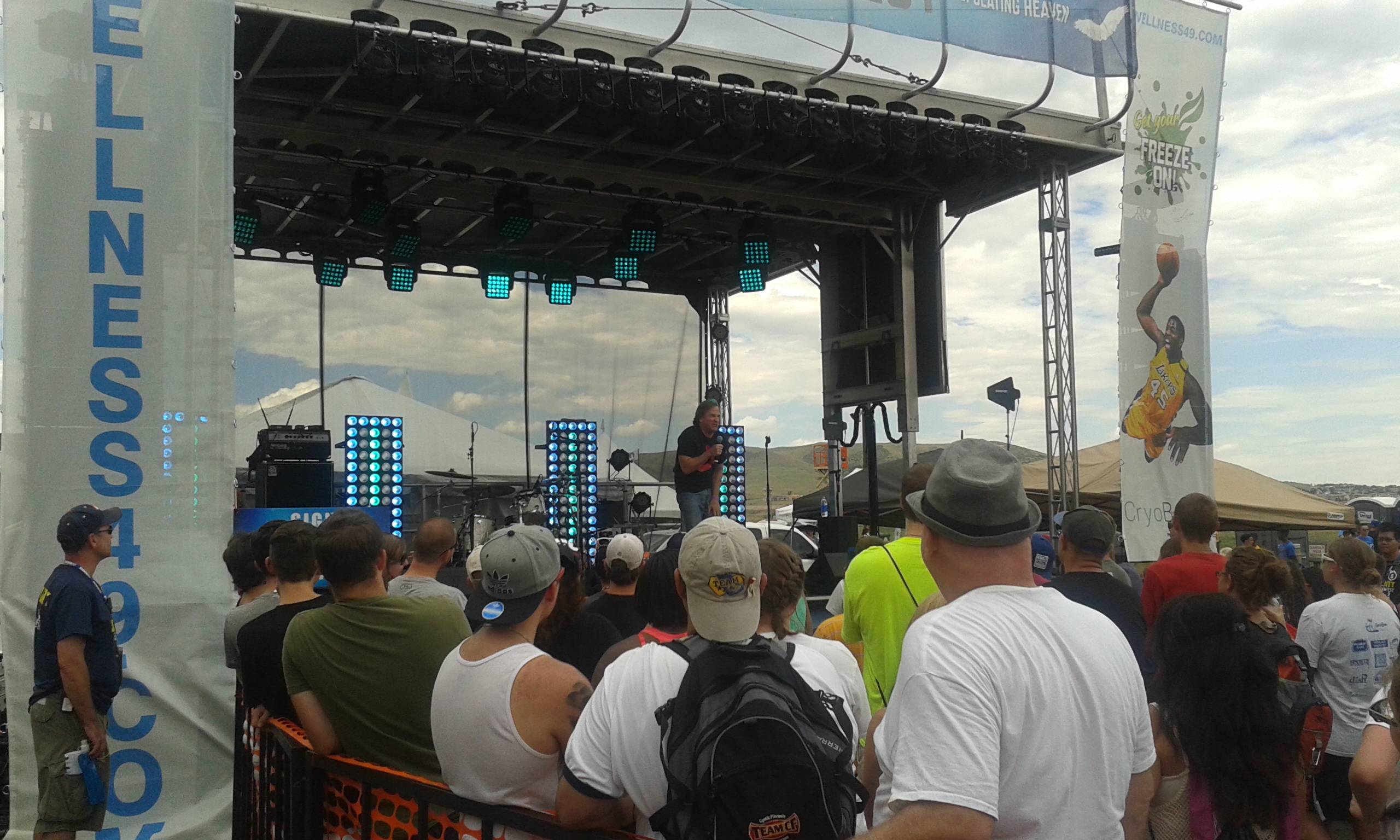 Brad Stine, HF2015